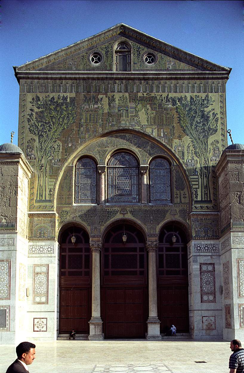 The Umayyad Mosque - the Eagle Dome, Damascus